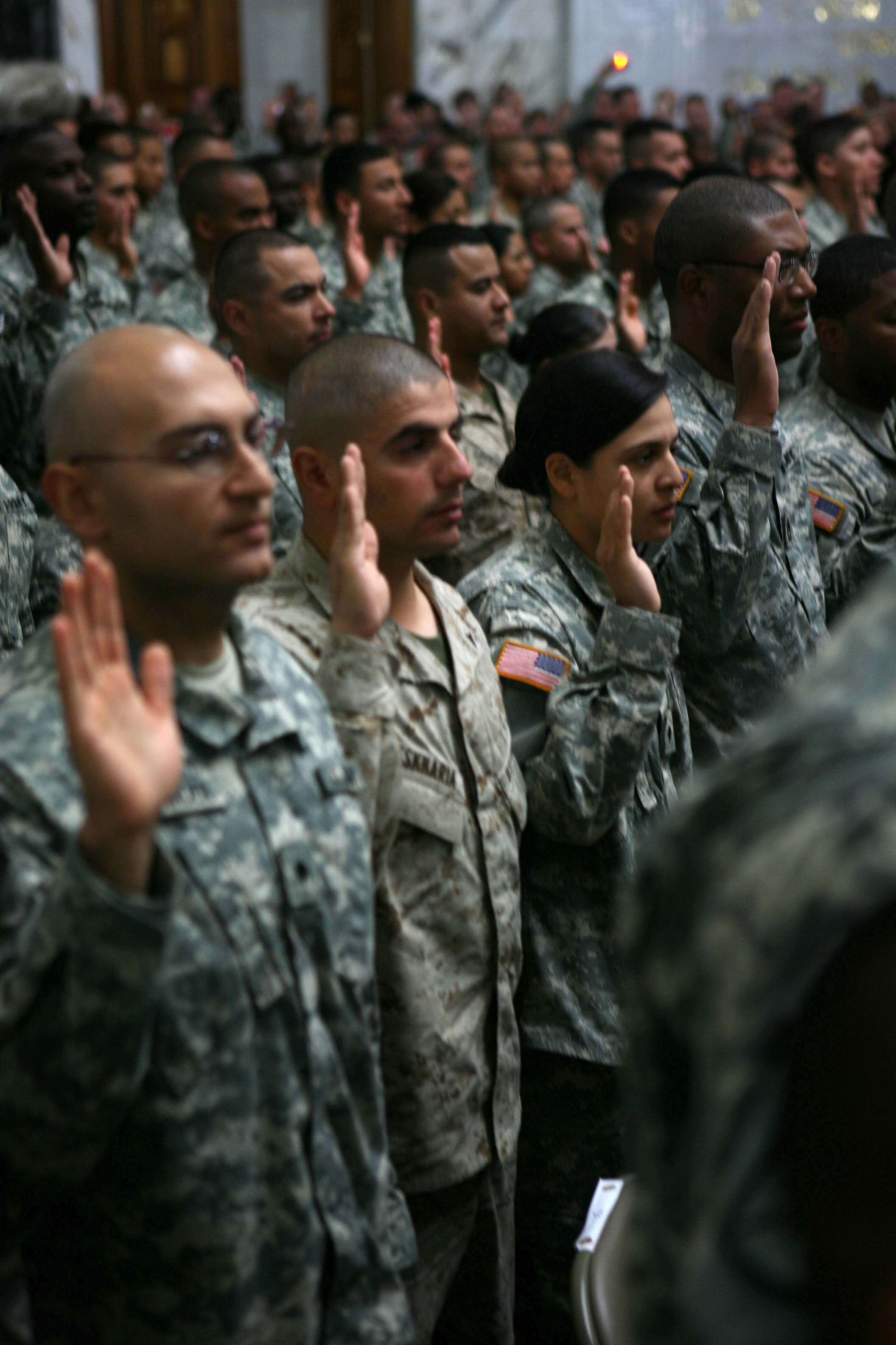 Lance Cpl. Evan Eskharia, basic water systems technician, Marine Wing Support Squadron 374, 3rd Marine Aircraft Wing recites the pledge of allegiance alongside 258 other service members during a naturalization ceremony at Al-Faw Palace, Baghdad April 12. The ceremony was the largest held outside of the United States.